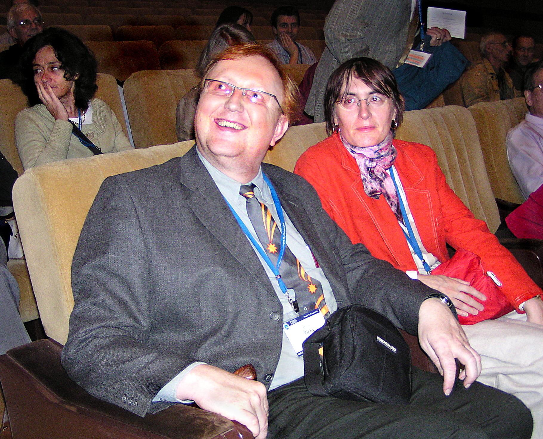 Miloš Tichý and Jana Tichá. IAU 26th General Assembly, Prague